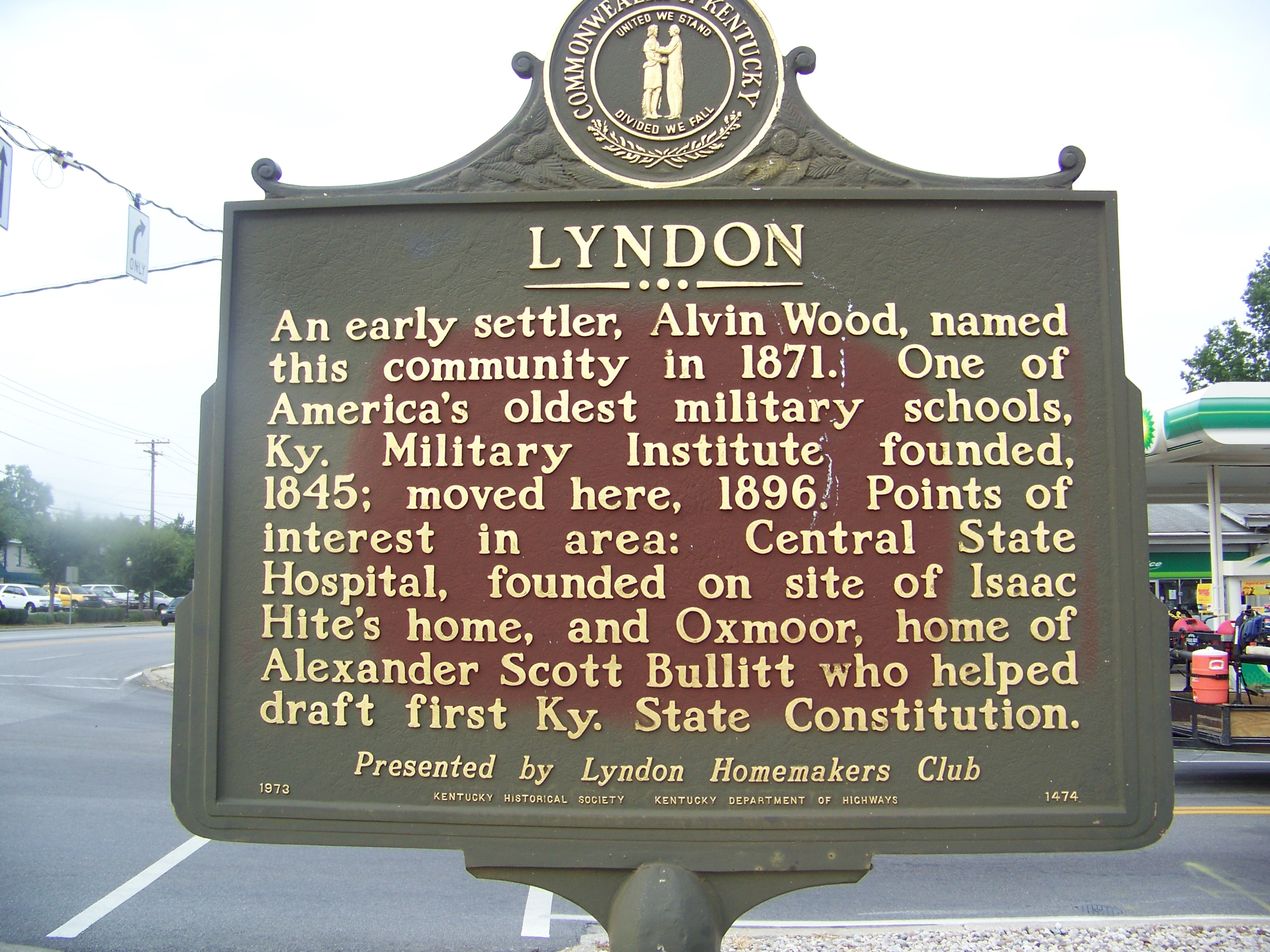 Commonwealth of Kentucky Historical marker reads: Lyndon An early settler, Alvin Wood, named this community in 1871. One of America's oldest military schools, Ky. Military Institute founded, 1845; moved here , 1896. Points of interest in area: Central State Hospital, founded on site of Isaac Hite's home, and Oxmoor, home of Alexander Scott Bullitt who helped draft first Ky State Constitution. Presented by Lyndon Homemakers Club 1973 - Kentucky Historical Society - Kentucky Department of Highways - 1474